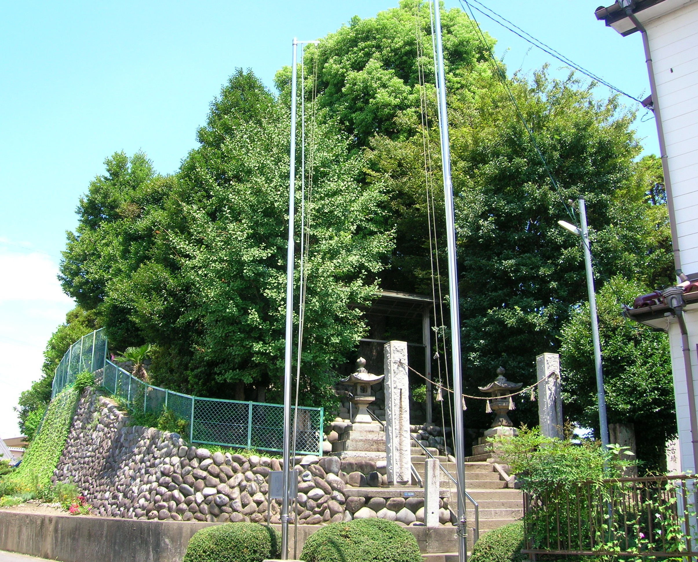 Mitsui Inariyama kofun. Loc: Ichinomiya city, Aichi Prefecture, Japan. 三ツ井稲荷山古墳・神明社の参道側 撮影場所 愛知県一宮市三ツ井八丁目